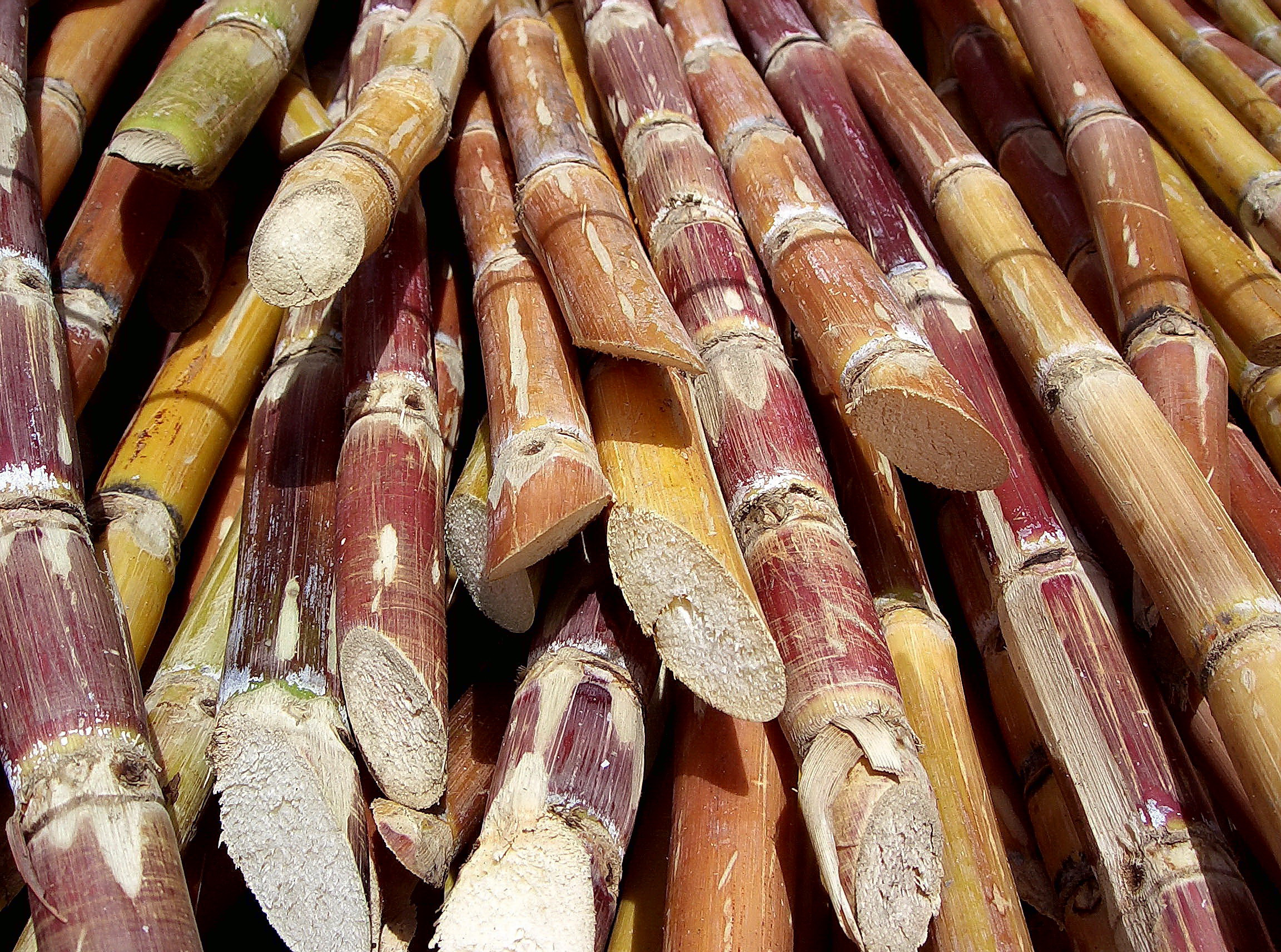 Venezuelan sugar cane (Saccharum) harvested for processing.